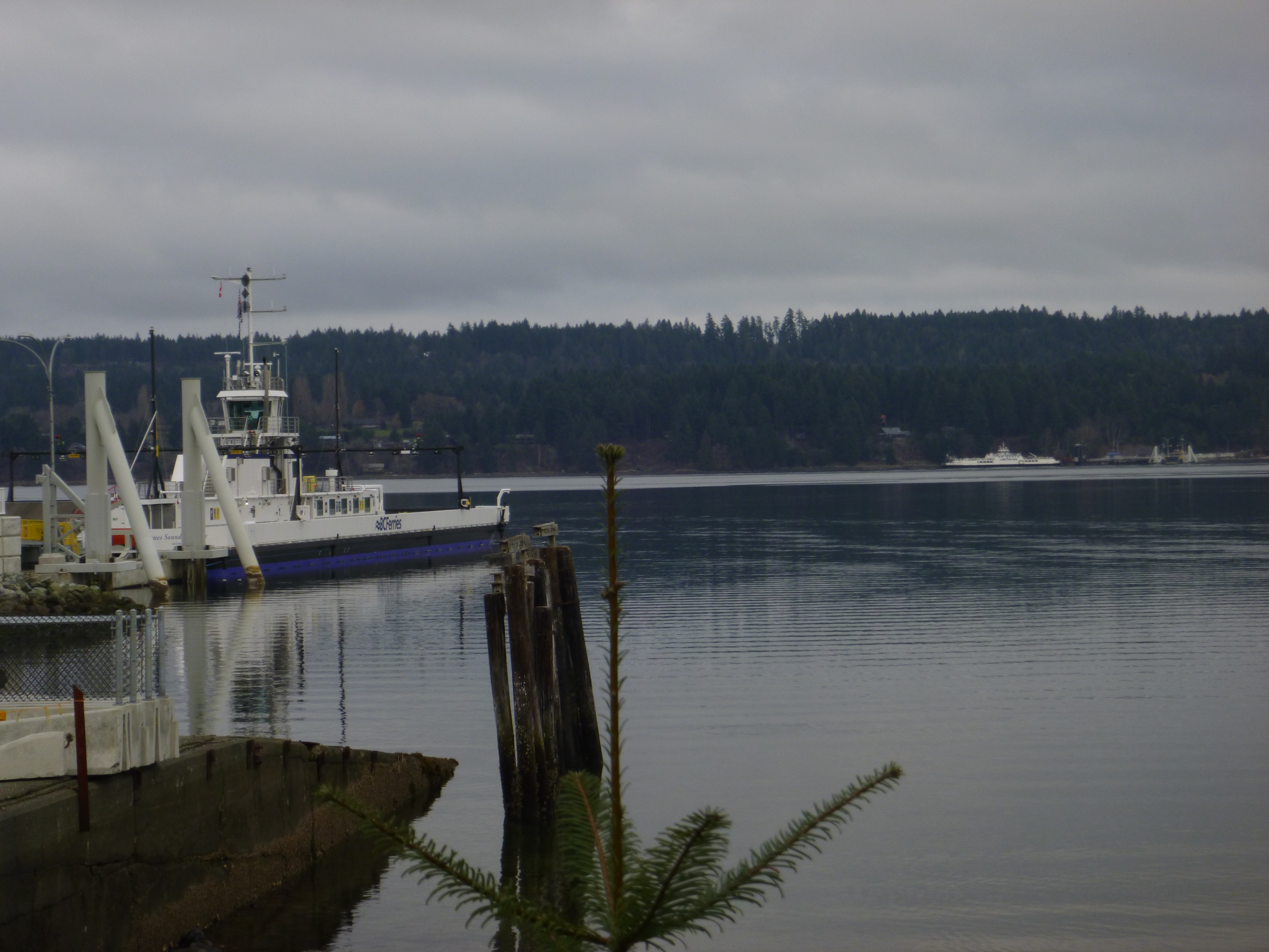 The BCFerry Baynes Sound Connector docked at Buckley Bay